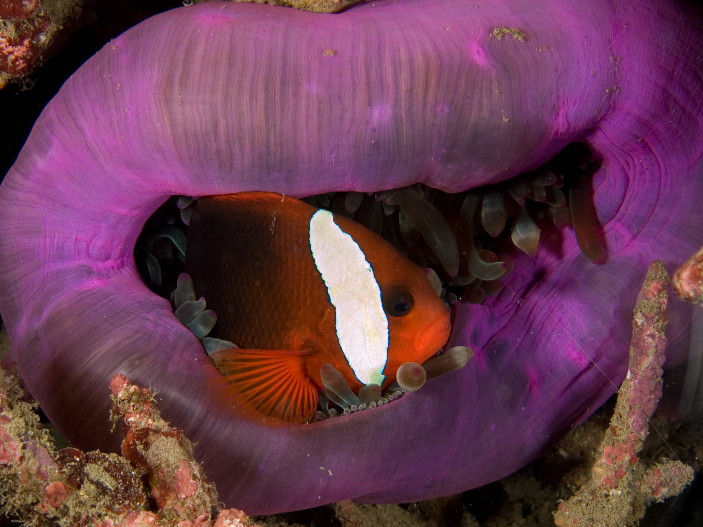 Amphiprion melanopus (Black anemonefish) in Heteractis magnifica (Magnificent anemone)